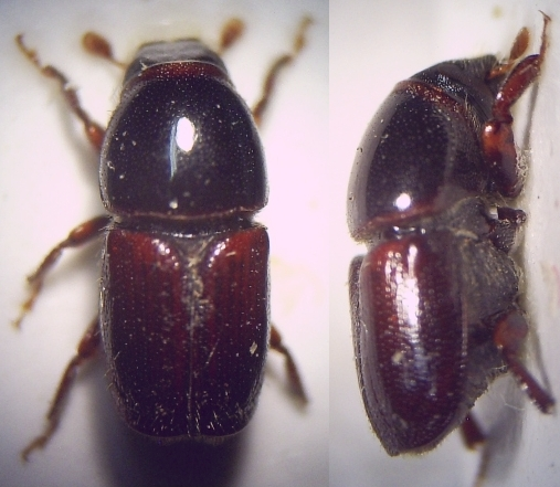 Scolytus_mali_Female_Imago